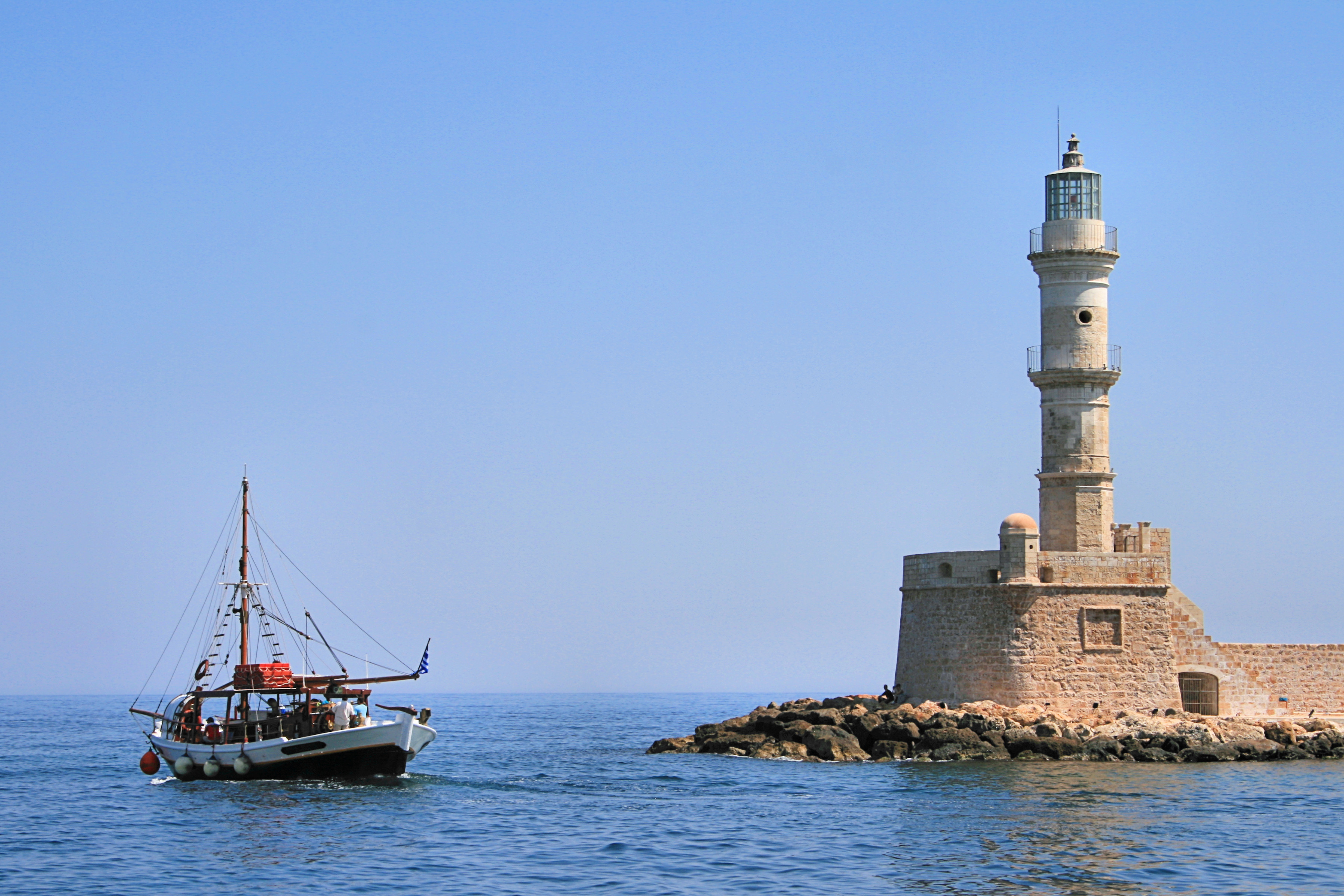 Chania on the island of Crete - The lighthouse